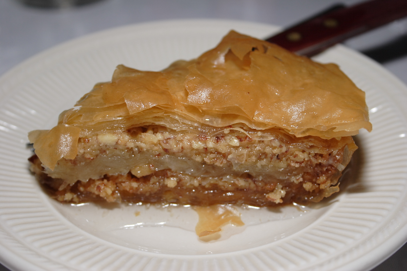 A plate with one piece of baklava.